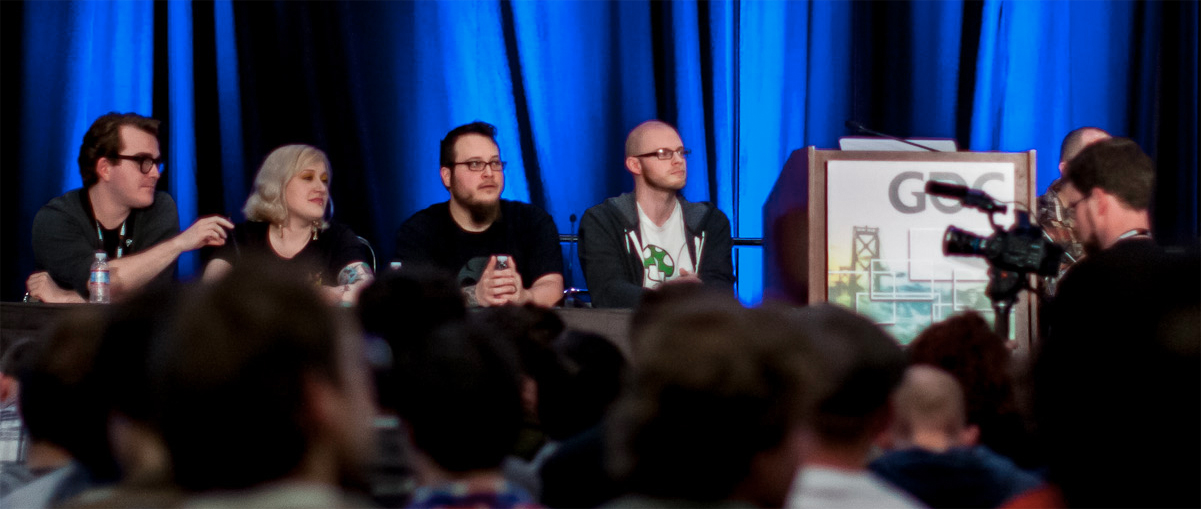 Cropped version of File:Q&A with cast and directors of Indie Game The Movie (6960008435) (2).jpg. Shows Phil Fish and Team Meat at a panel.